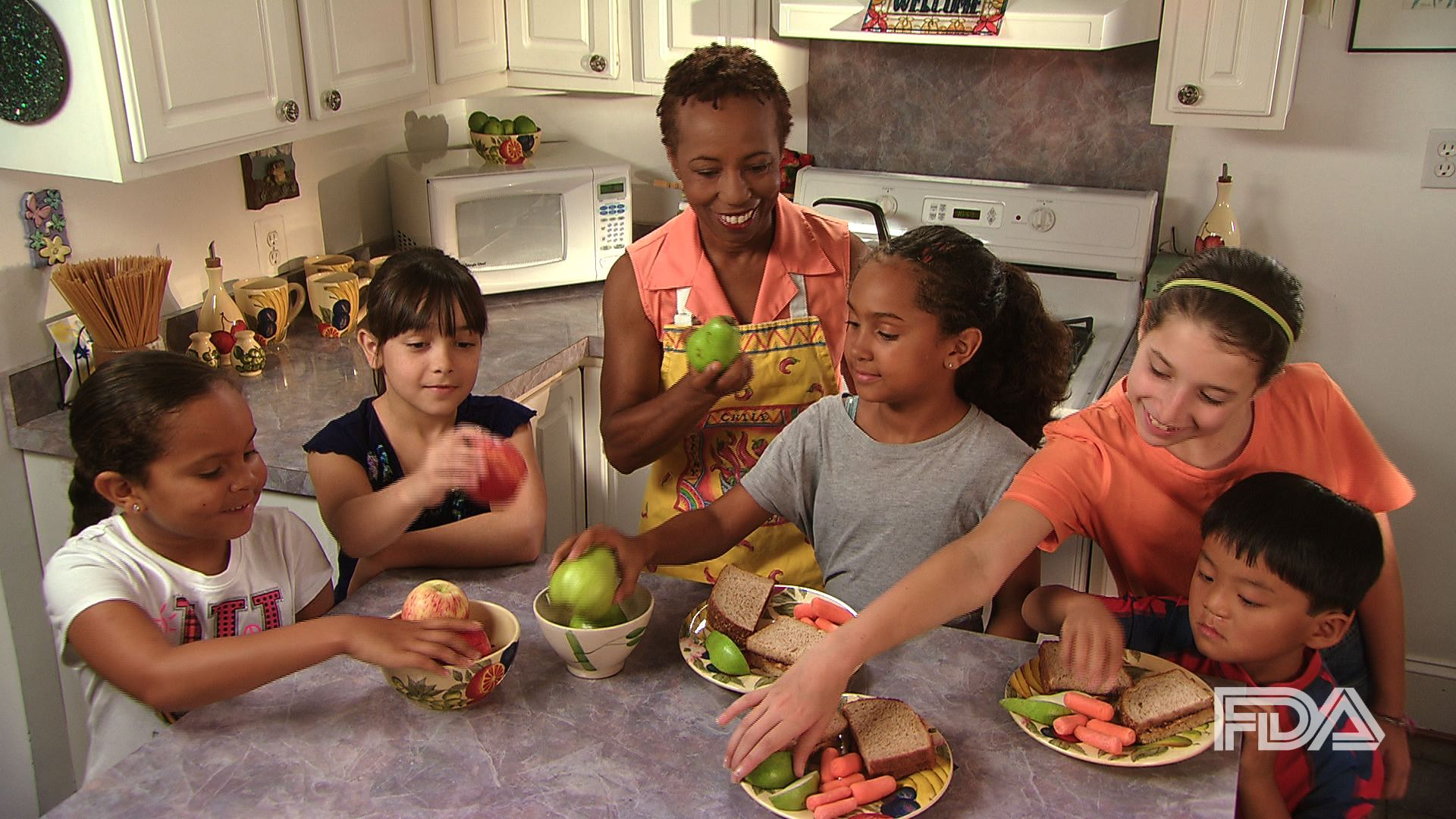 Like adults, youngsters need dietary fiber. By helping our digestive system work effectively, fiber plays an important role in maintaining good health. Great natural sources of fiber include: • Beans, like navy, pinto, kidney, and black or white • Peas, like split peas, chickpeas, and black-eyed peas • Fruit, like pears, raspberries and prunes • Vegetables, like spinach, carrots, and broccoli • Whole grain cereal, whole grain bread, and whole grain pasta For more information, watch FDA’s Consumer Update video “Kids ‘n Fiber” at